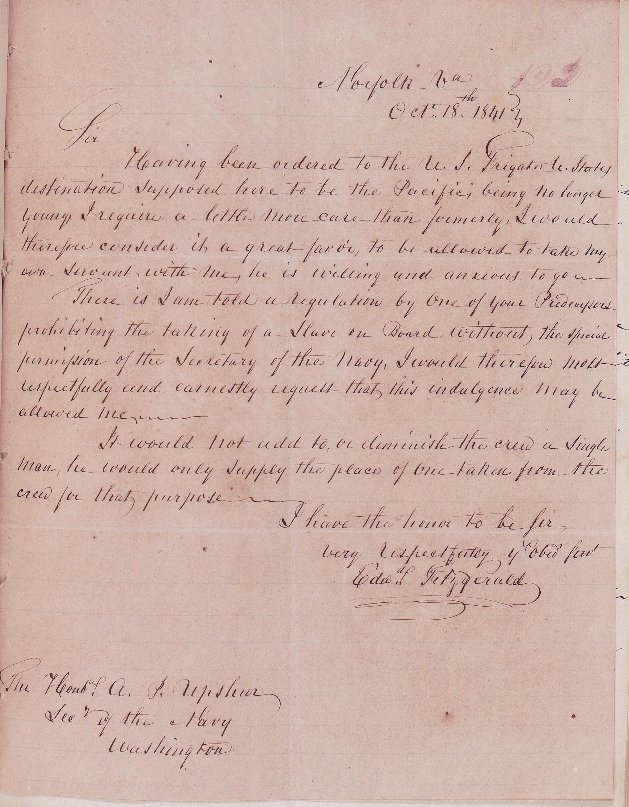 Purser Edward Fitzgerald USN to A.P. Upshur 18 Oct 1841 re permission to bring his slave Robert Lucas aboard USS United States. Lucas is later depicted in Herman Melville's White -Jacket.